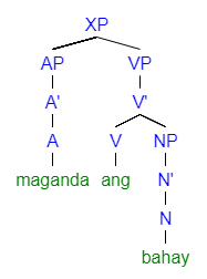 Simplified syntax tree adapted from Scontras (2012) example 9b, made with